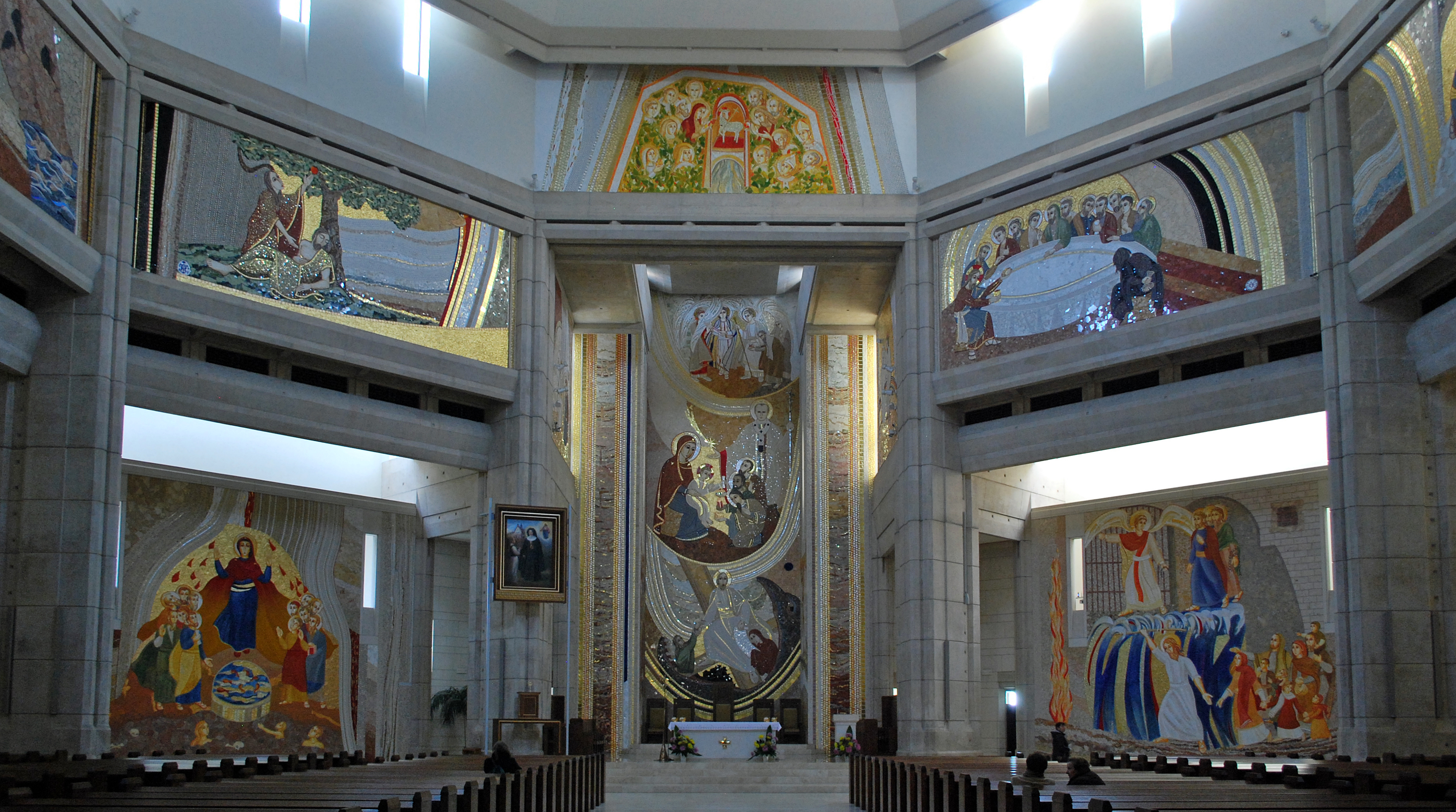 St. John Paul II church-upper church (interior), 32 Totus Tuus street, Krakow, Poland